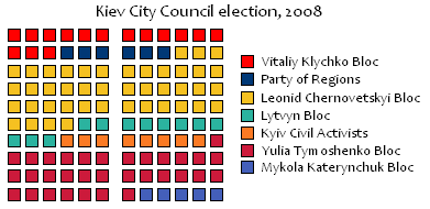 Results of the Kiev City Council election, 2008.